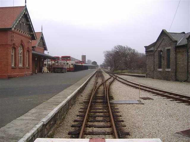 Railway station, Port Erin, Isle of Man. Looking East from the terminal buffer.